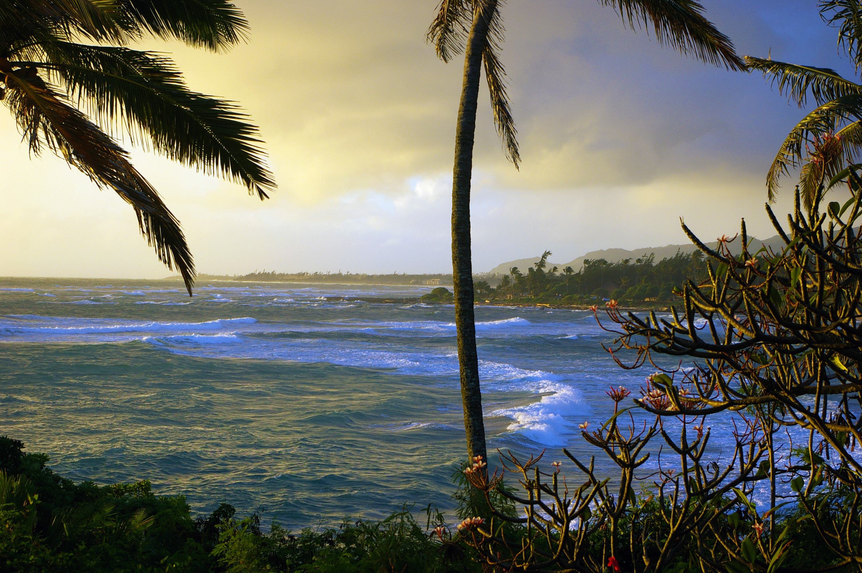 A view of the ocean as seen from the shoreline of a beach in Wailua, Kauai. Taken December 2011. Other information My (Devin Carroll) work, please do not use for a profit